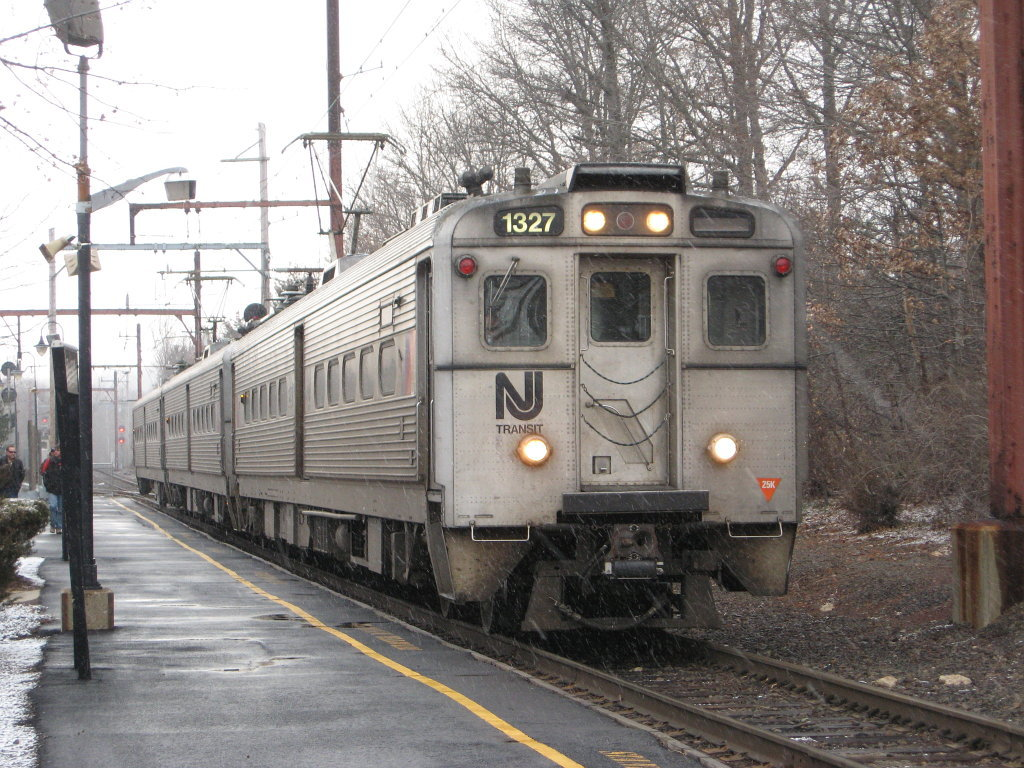 New Jersey Transit train led by car #1327 pulls into the Far Hills station.